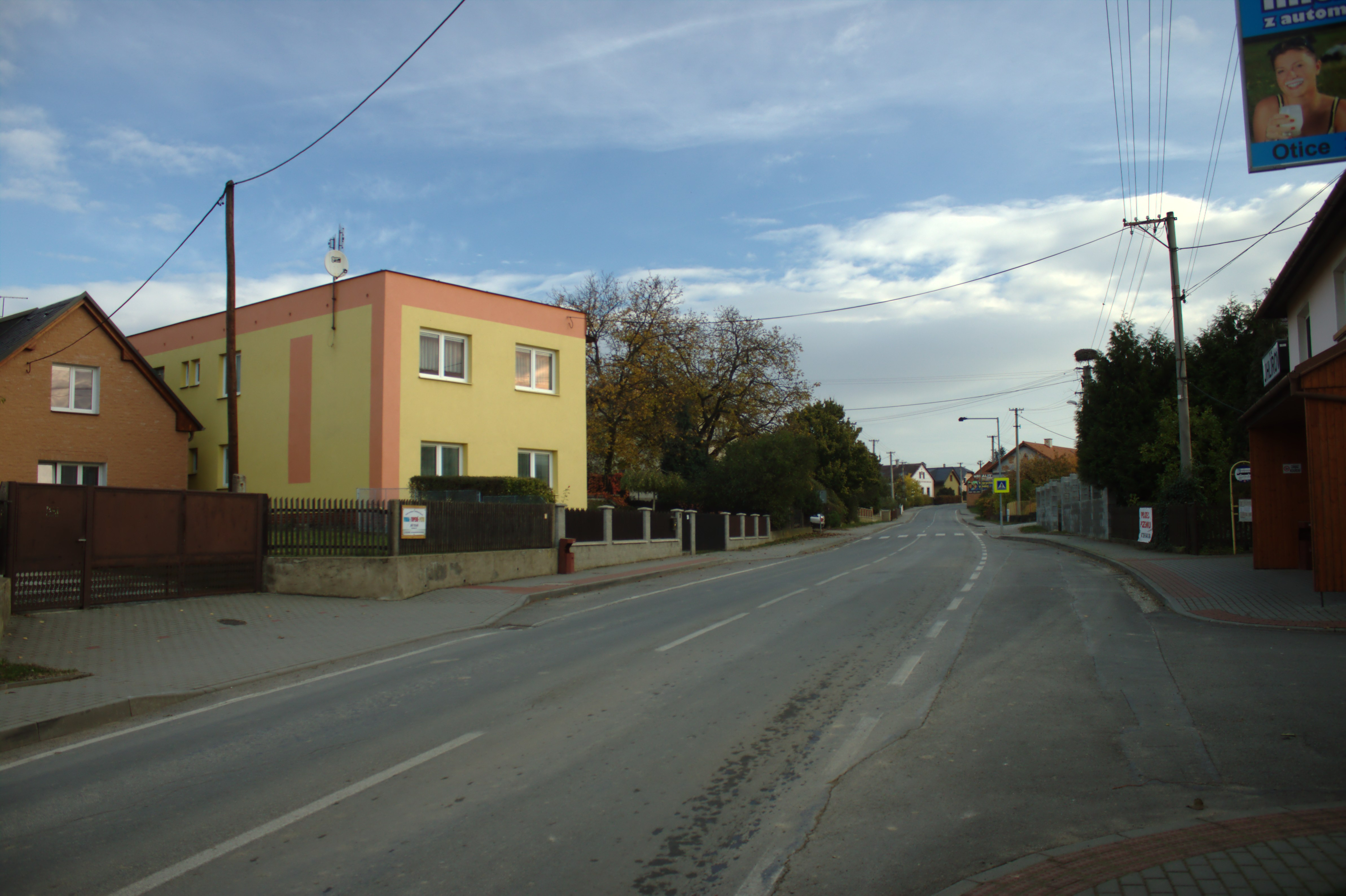 Main road in the village of Uhlířov, Moravian-Silesian Region, CZ